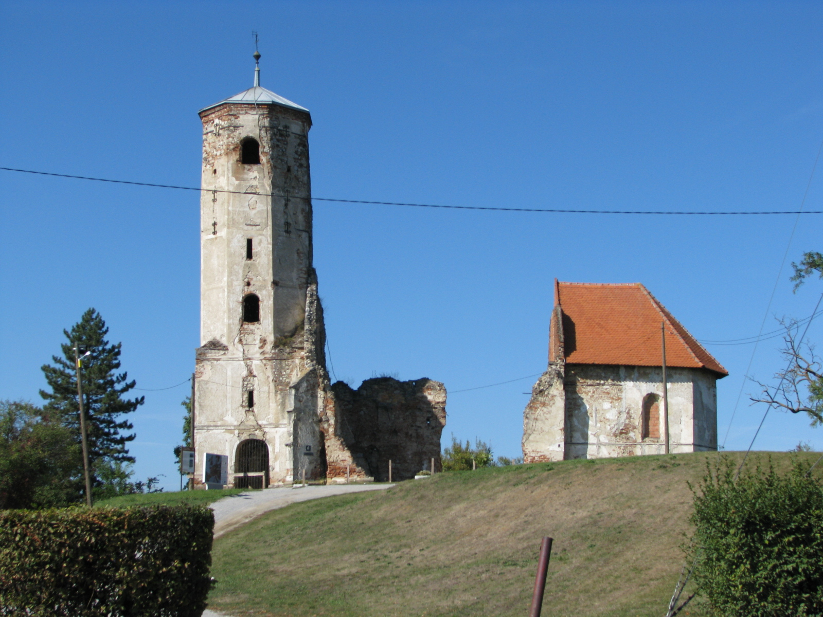 Old St. Martin Church, Martin Breg, Dugo Selo, Croatia